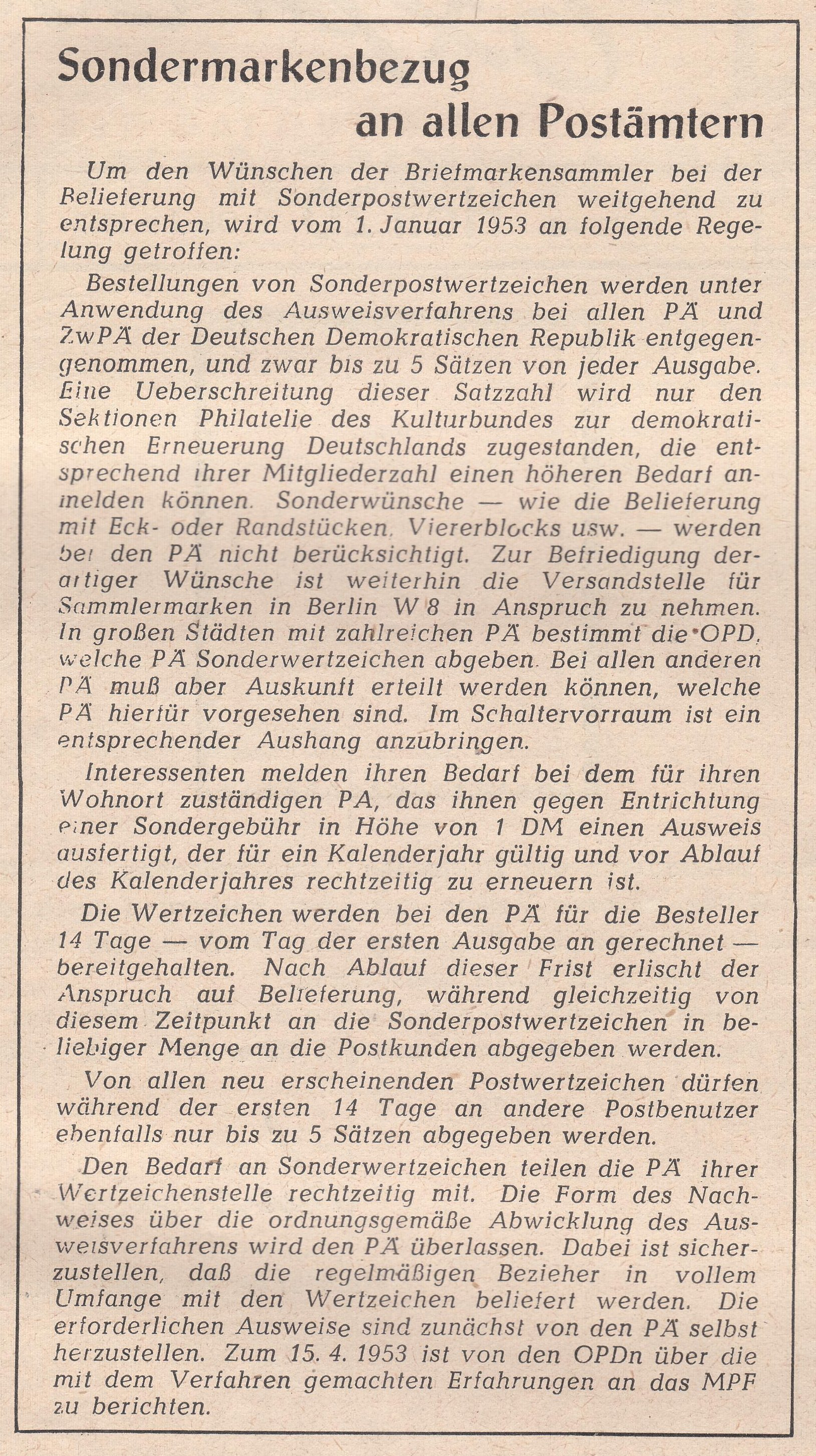 Postamtliche Ankündigung der Sammlerausweise in: sammler express 1952, H. 20, S. 2